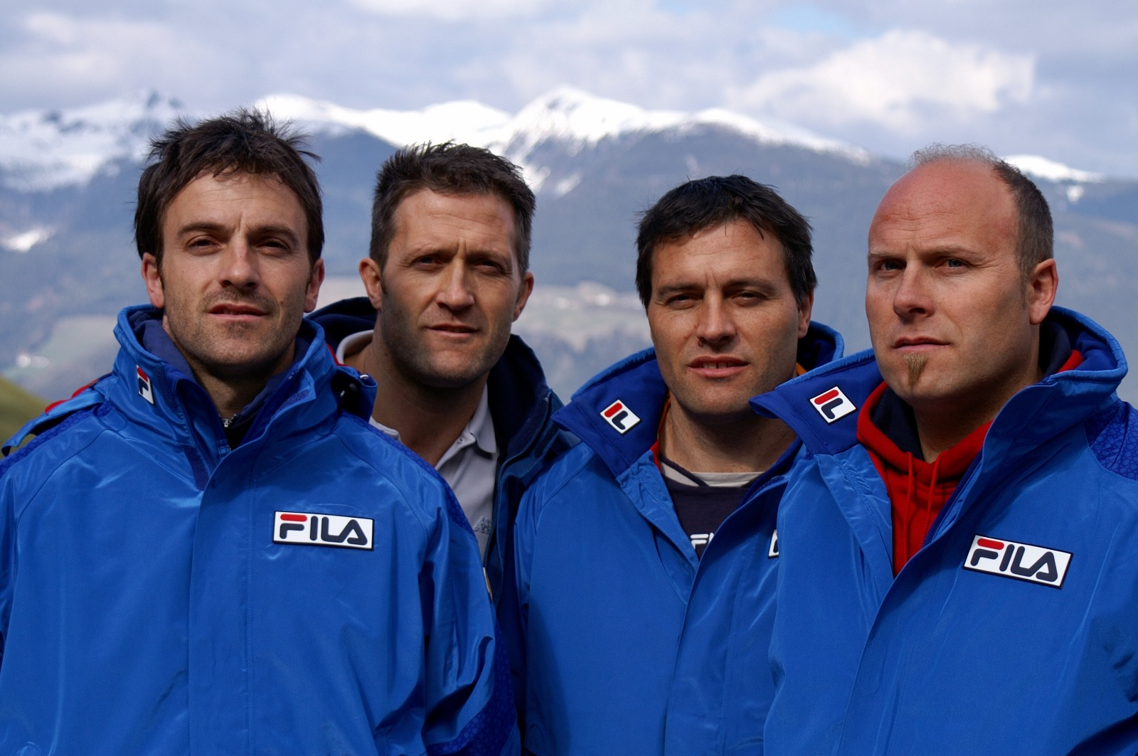 Bob and Luge